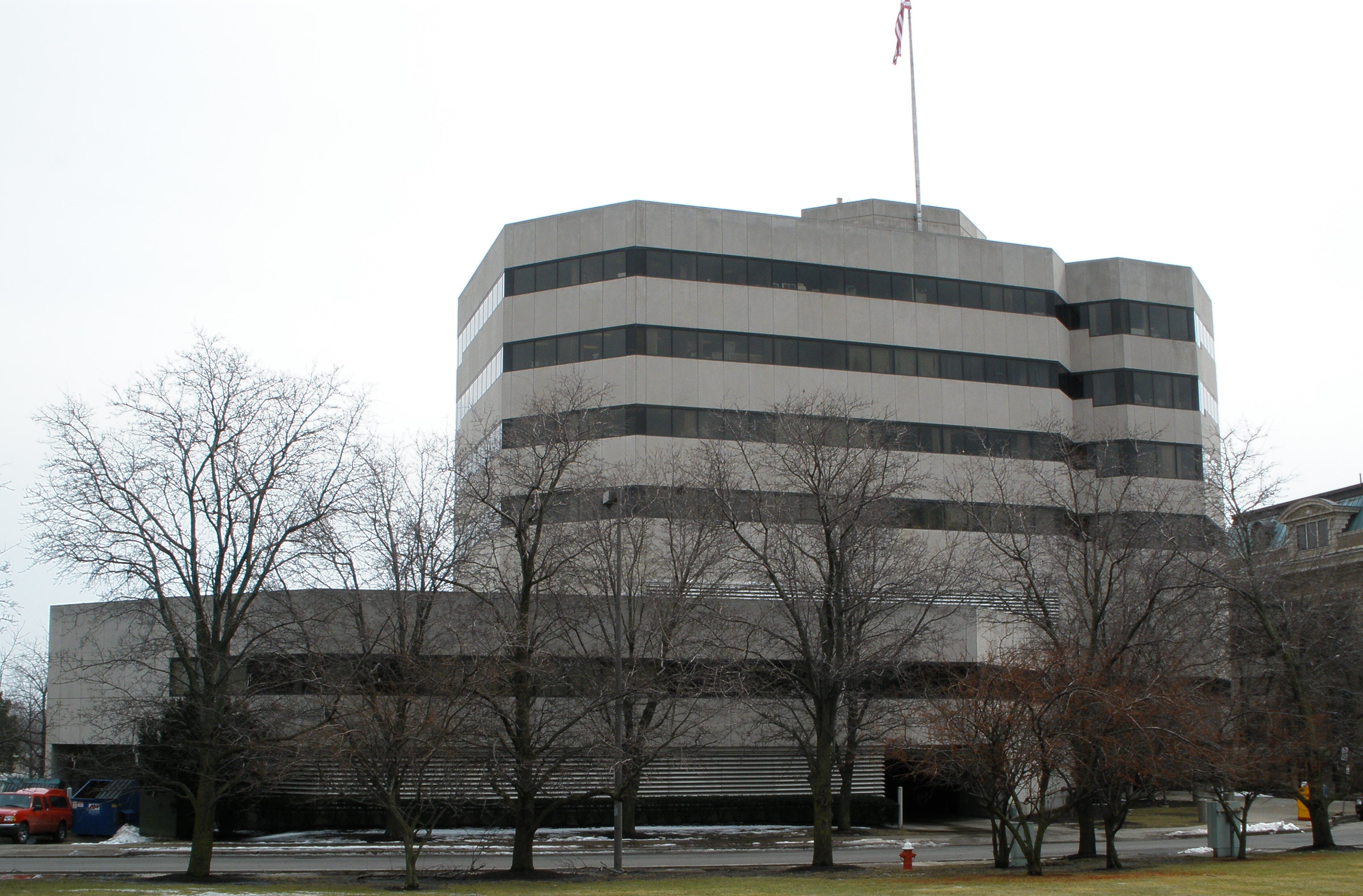 One Maritime Plaza, Toledo, Ohio. Headquarters of American Maritime Officers Great Lakes operations.